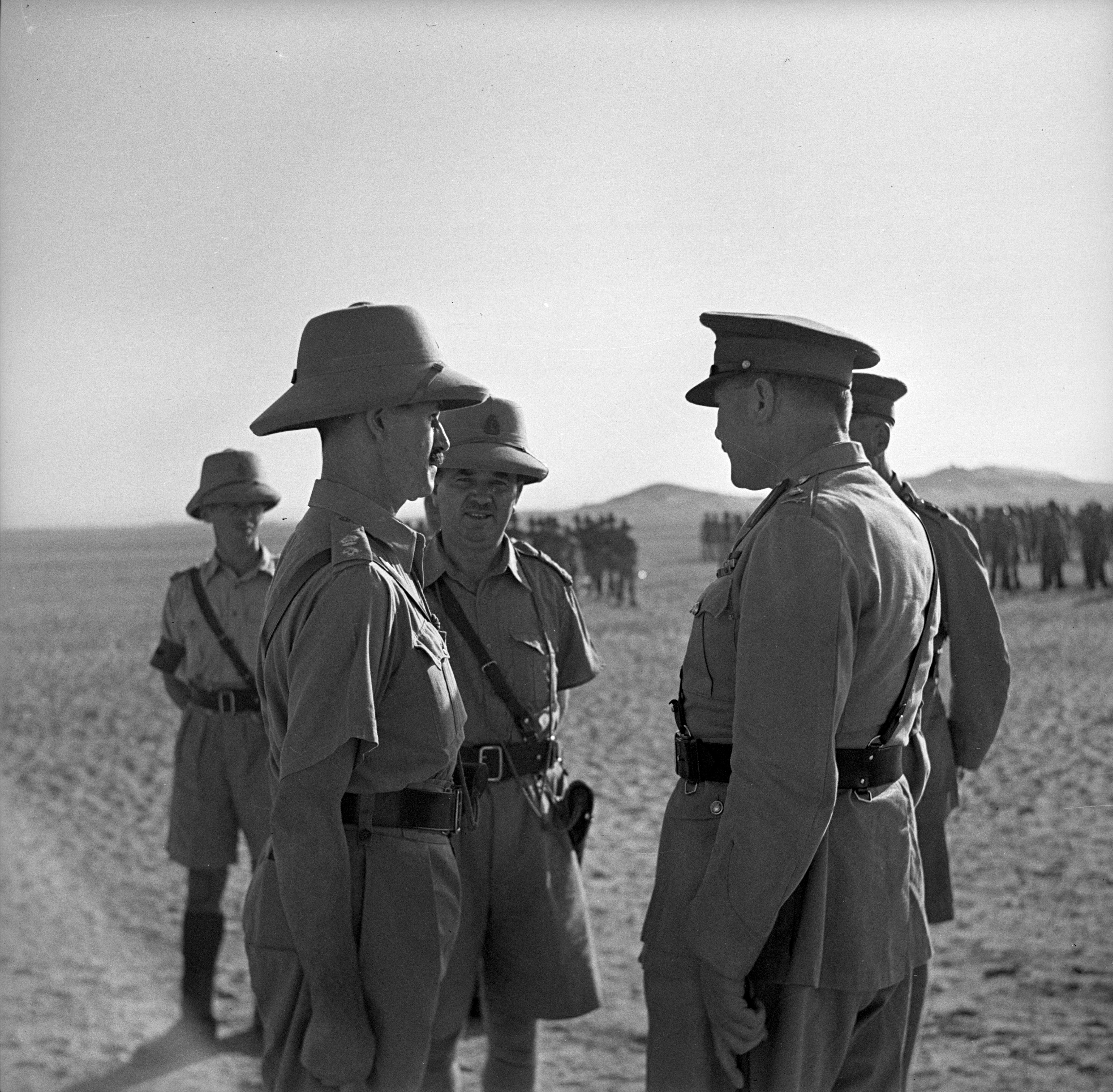 Lieutenant Colonel Leslie Andrew, VC, with Brigadier Hargest and General Freyberg at Helwan, Egypt, 22 July 1941. New Zealand. Department of Internal Affairs. War History Branch :Photographs relating to World War 1914-1918, World War 1939-1945, occupation of Japan, Korean War, and Malayan Emergency. Ref: DA-13918-F. Alexander Turnbull Library, Wellington, New Zealand. The creator of this work was most likely an official photographer of the NZ Military Forces and thus copyright in this work probably rests or rested with the Crown. The Crown has released this work under the CC-BY 3.0 unported license. Refer to source website for details: This work's copyright expired 50 years after creation in New Zealand and probably also in countries following the rule of the shorter term.